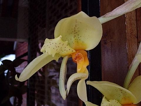 Stanhopea graveolens A work released per the GNU Free Documentation License by: Martín Javier Battiti de Tegucigalpa, Honduras